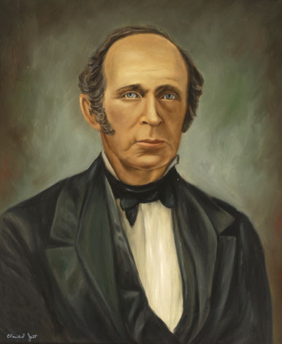 William Dunn Moseley (1795–1863), First Florida governor under statehood June 25, 1845 to October 1, 1849. Oil over photograph, Claribel Jett, ca. 1960.